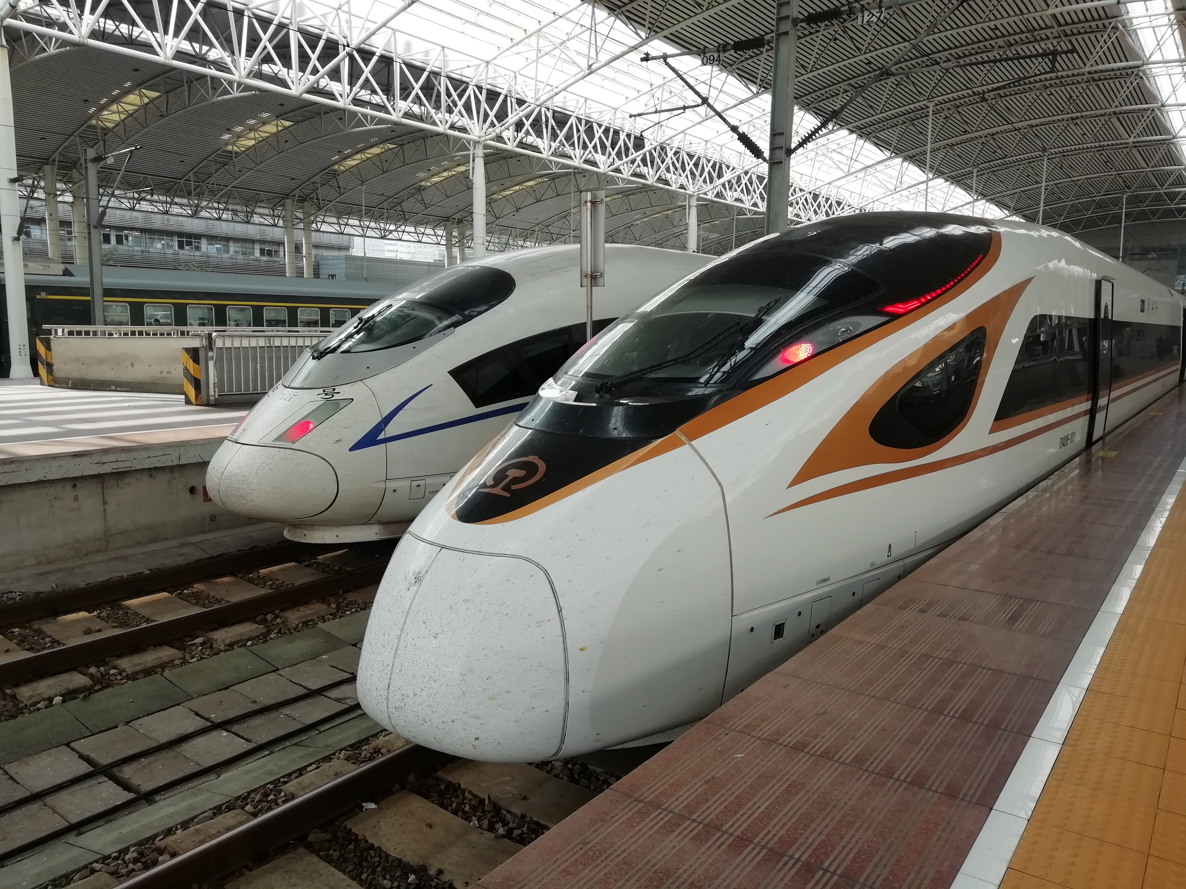 CRH380B-5737 and CR400BF-3021 stooped at Shanghai Railway Station. I took CRH380B-5737 train in 2016. Now the train is sponsored by Xiuzheng Pharma, and served as G7221, which departed from Huainan East. And CR400BF-3021 is served as G7048 to Nanjing. 中文（中国大陆）: 停靠于上海站的CRH380B-5737和CR400BF-3021。我于2016年乘坐CRH380B-5737列车，现该列车改由修正药业冠名，担当由淮南东站始发的G7221次。而CR400BF-3021则担当发往南京的G7048次。